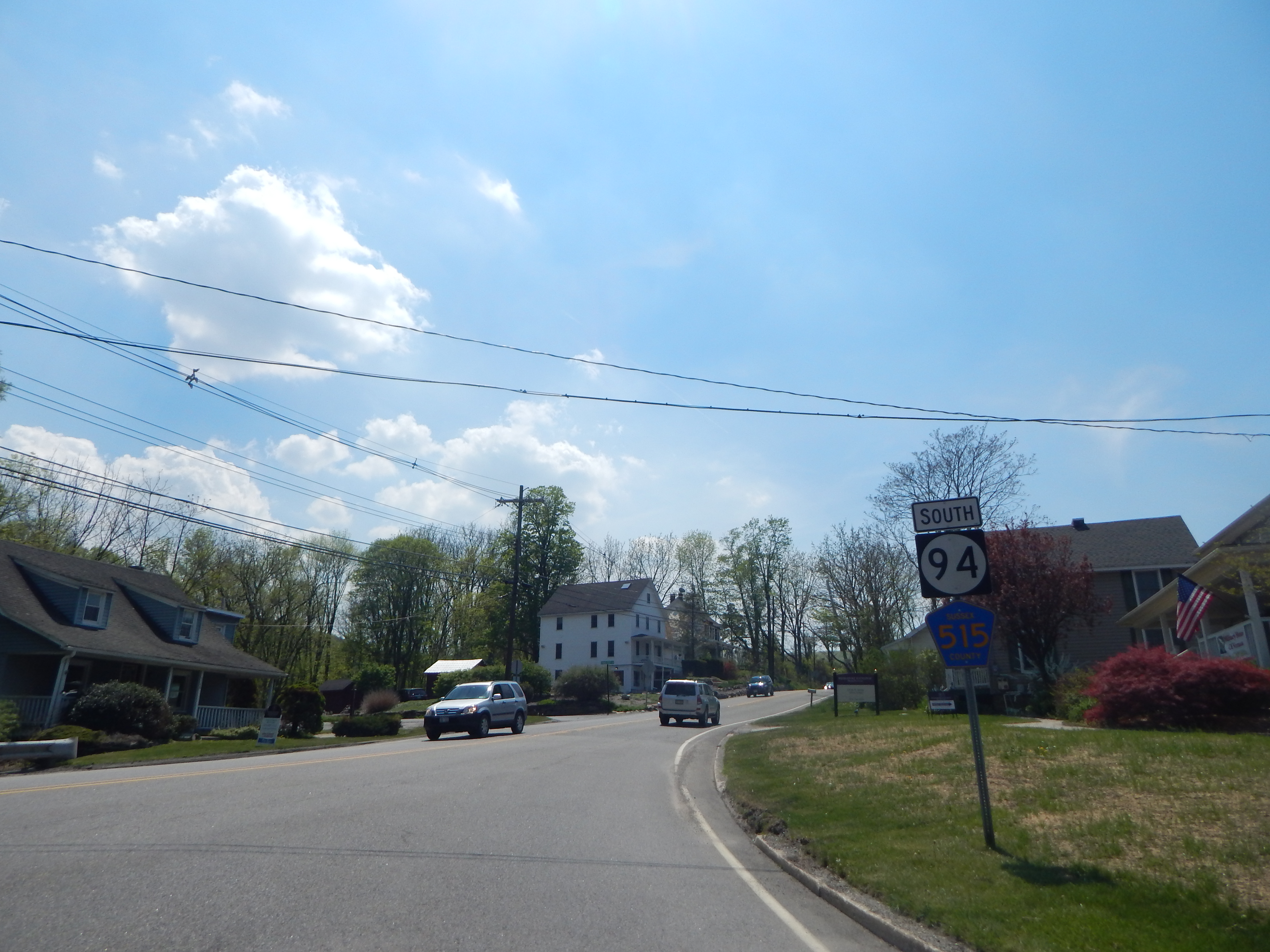 Sussex County, New Jersey